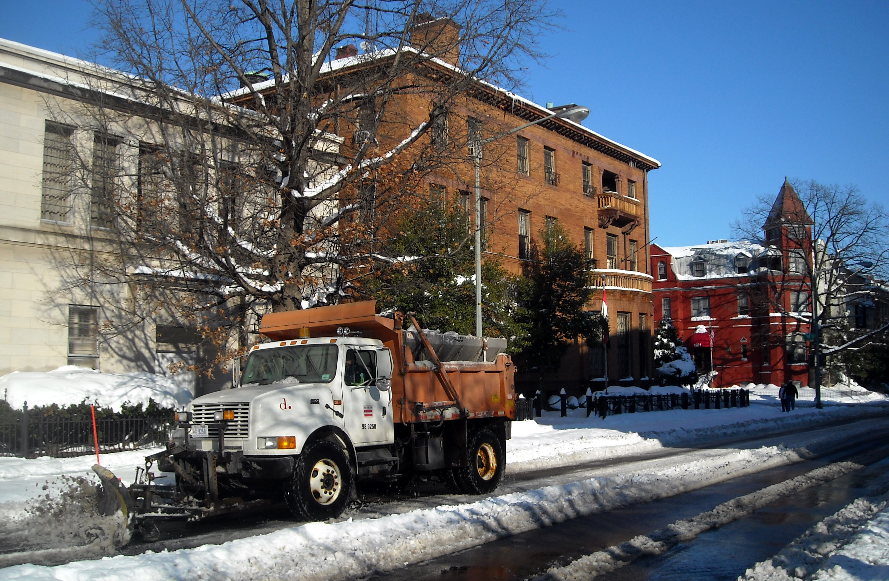 A DDOT snowplow on the 1800 block of P Street NW in the Dupont Circle neighborhood of Washington, D.C., after the North American blizzard of 2009. The Embassy of Iraq's Consular Office and the Embassy of Malaysia's Chancery Annex are visible in the background.